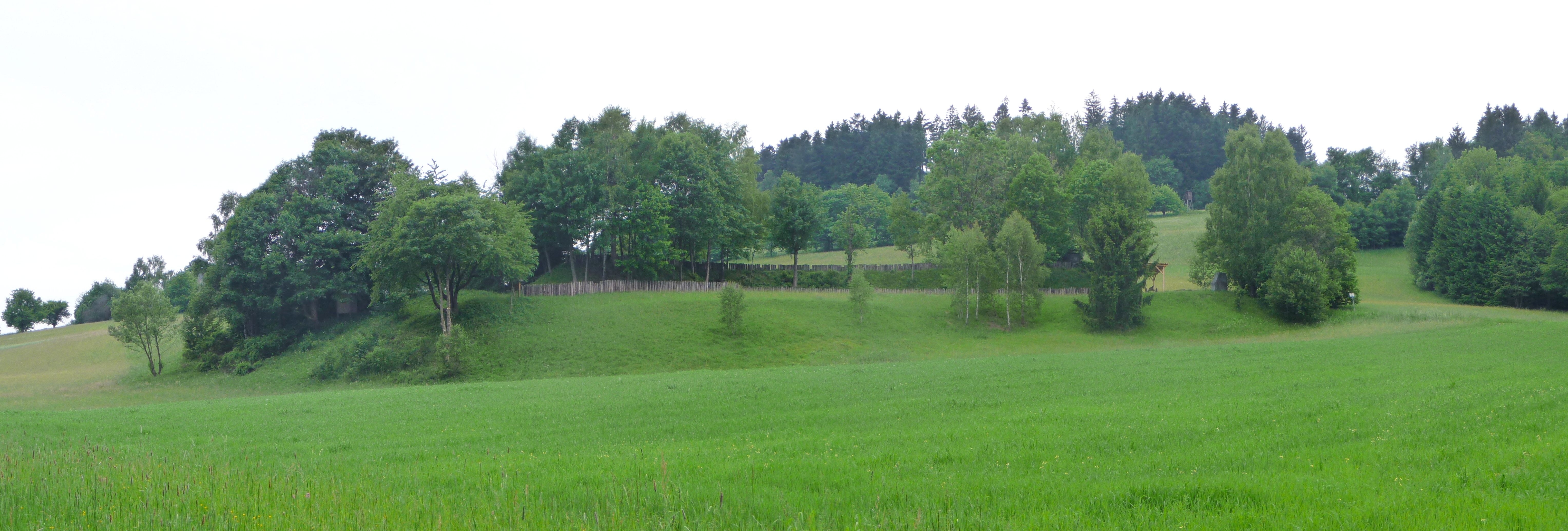 View of the Swedish Rampart in Rading from the Austrian-Czech border (Upper Austria, Austria).